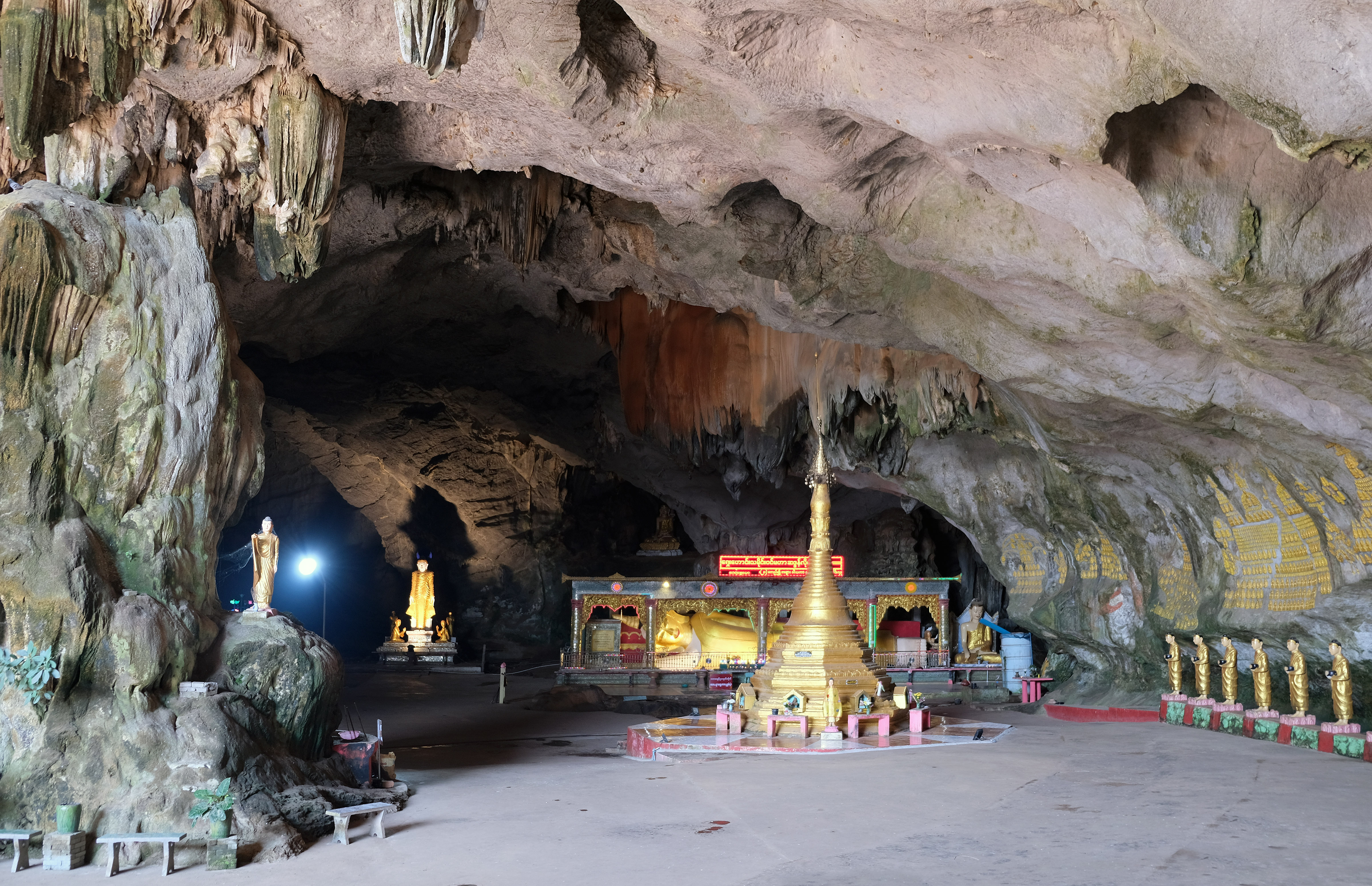 Mahar Sadan Cave, Hpa An, Myanmar.